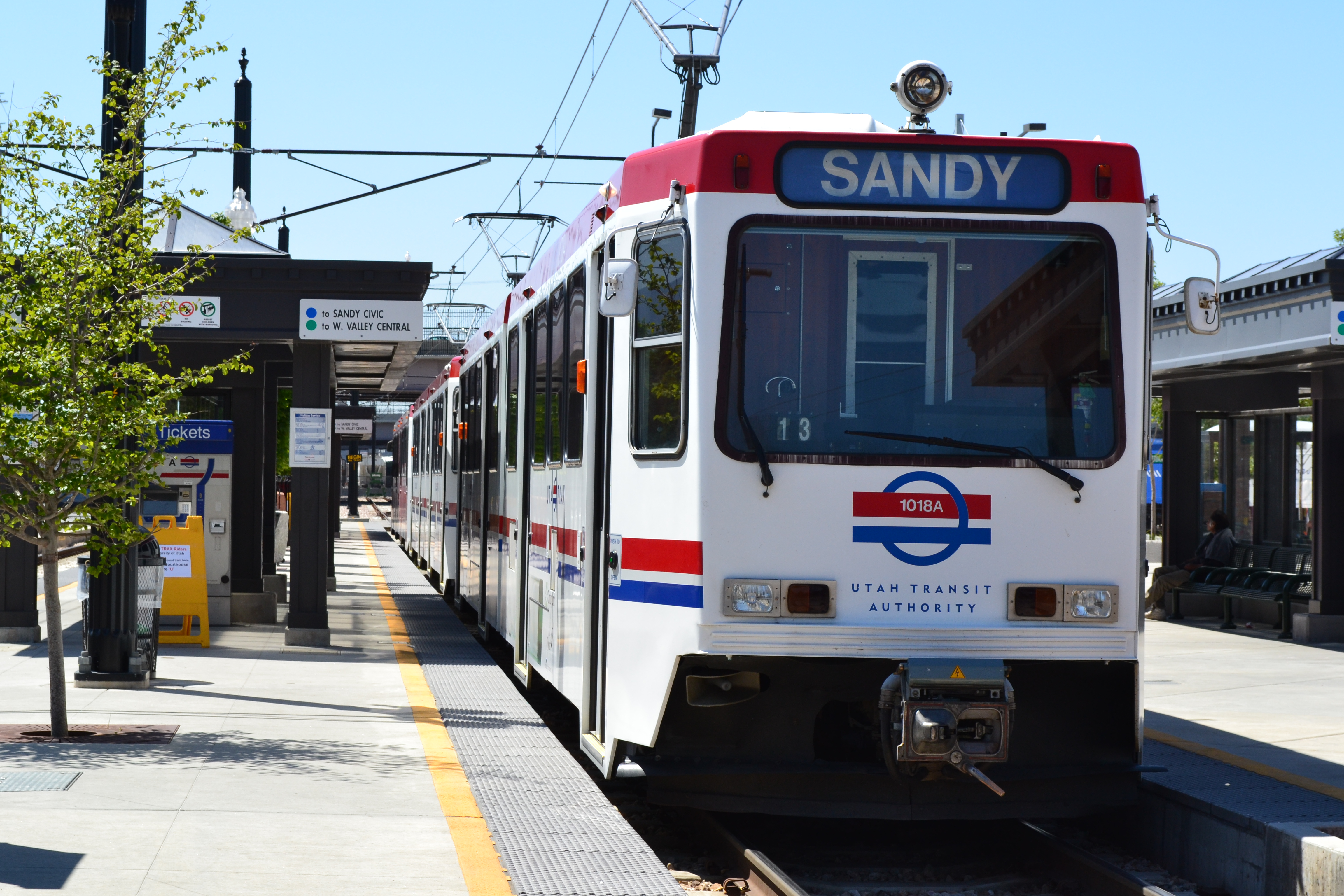 A Utah Transit Authority Trax light rail vehicle at Central Station in Salt Lake City. The LRV is a Siemens SD-100. The old trains will continue to service the blue line. They're in perfectly good condition; however, they're not as wheelchair accessible as the new Avanto trains servicing the red and green lines.